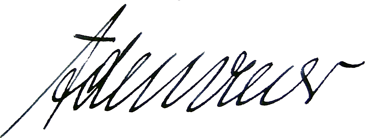 Signature of Konrad Adenauer